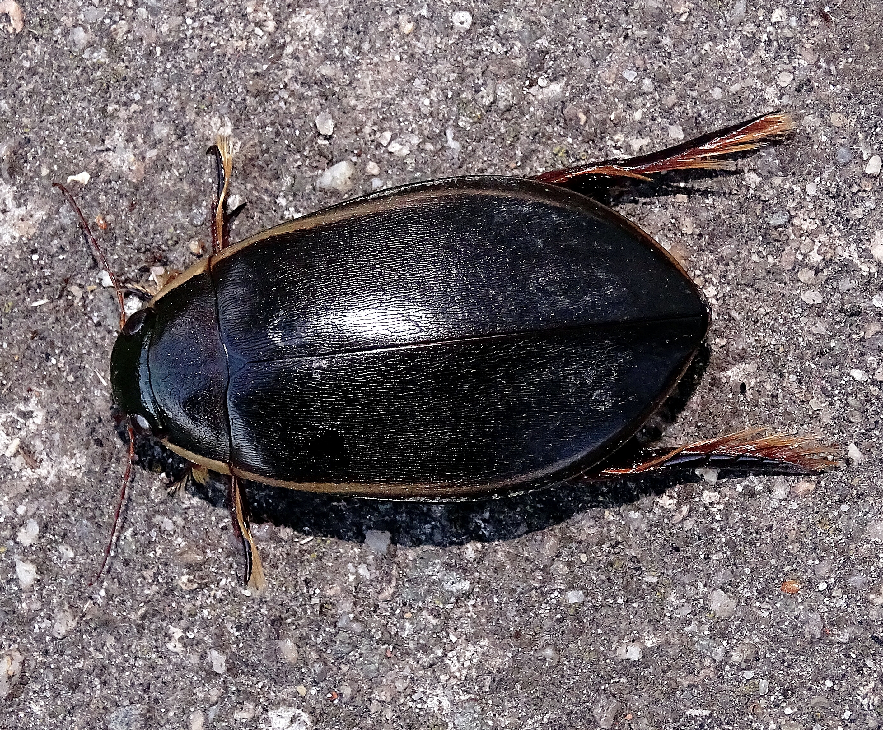 Cybister lateralimarginalis